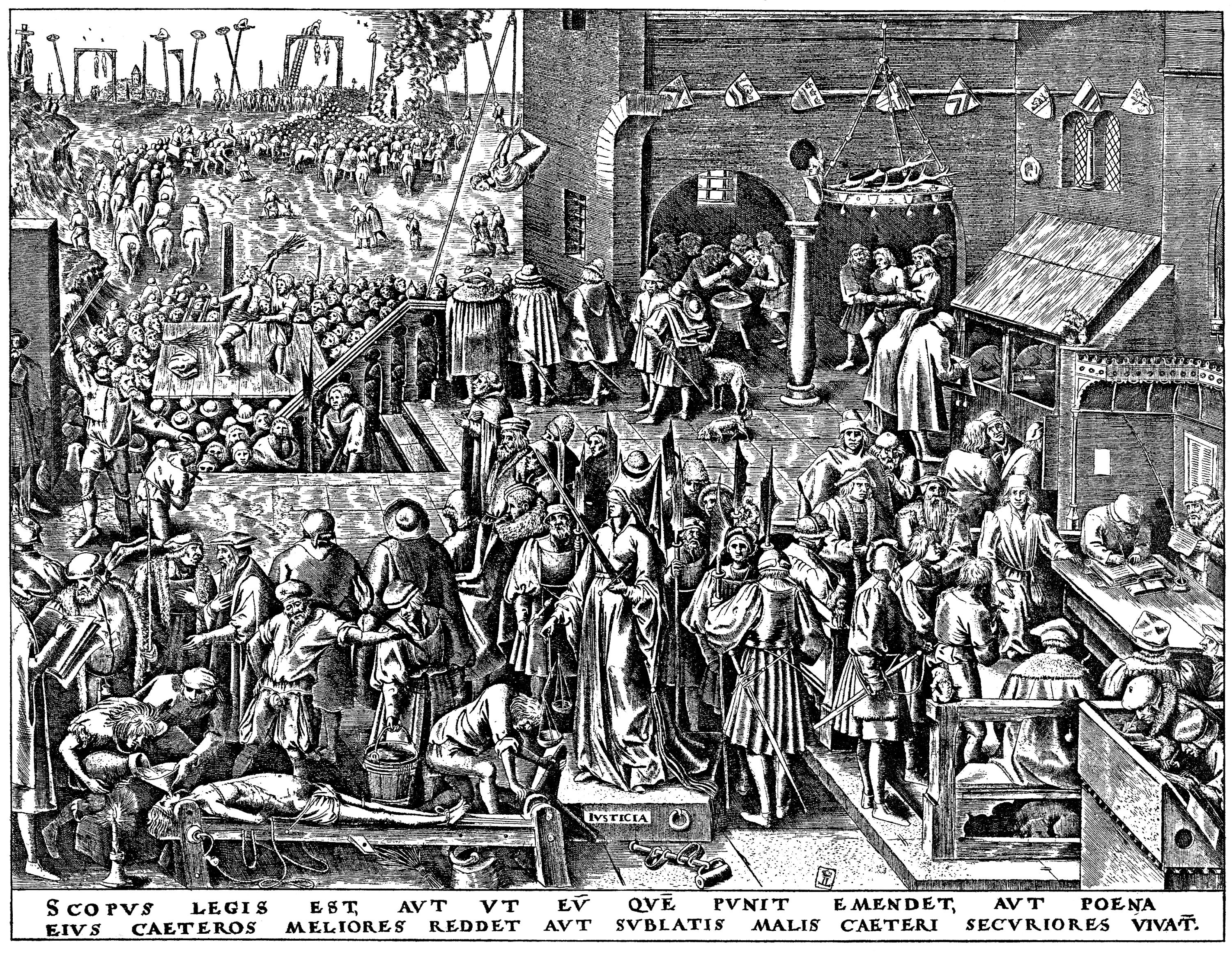 The Seven Virtues, namely the theological virtues faith, hope and charity and the four cardinal virtues prudence, justice, temperance and fortitude, by Brueghel, published by Philippe Galle. See also: Brueghel: The Seven Vices